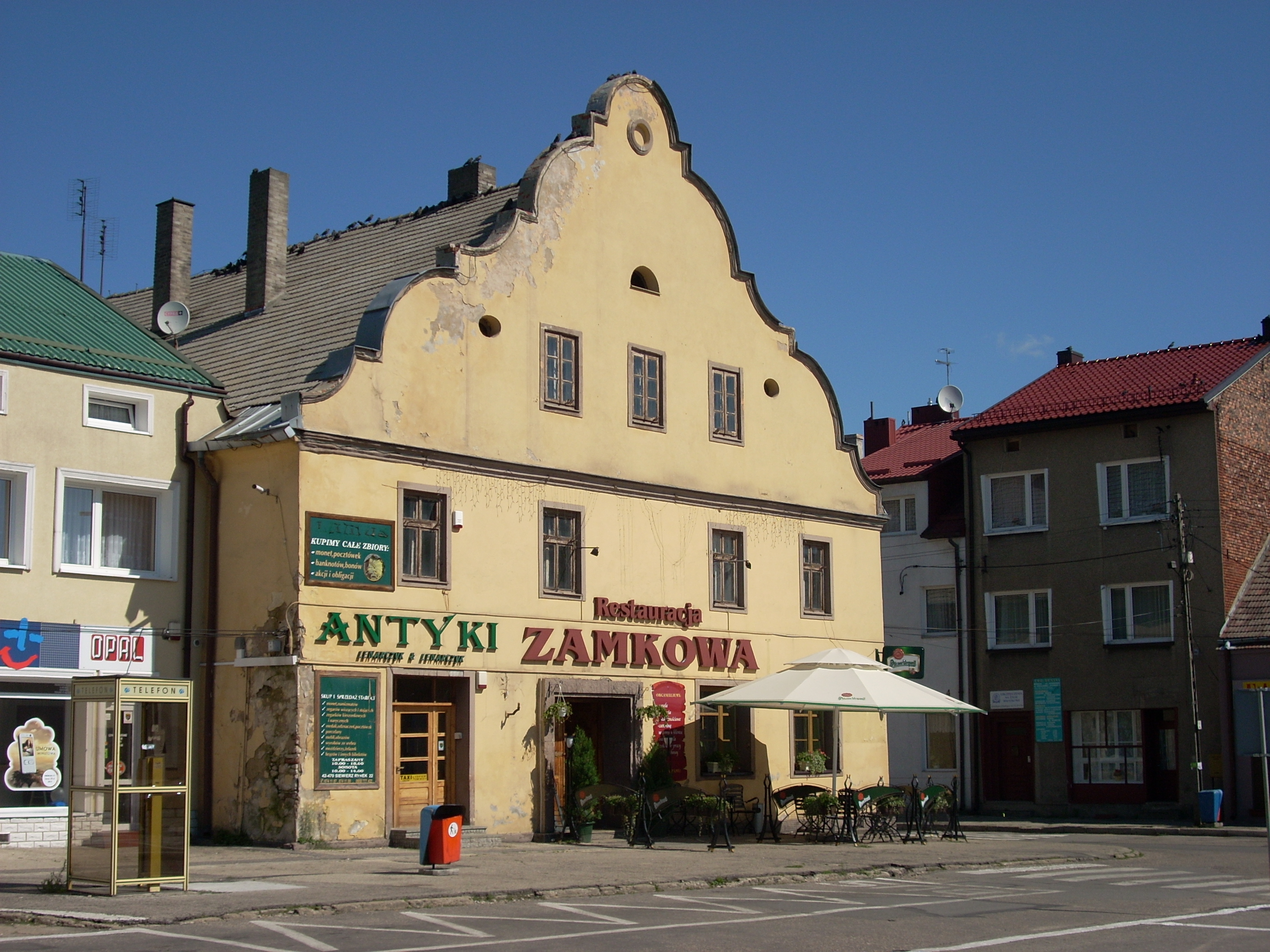 Kamienica mieszczańska z XVIII wieku,w Rynku w Siewierzu